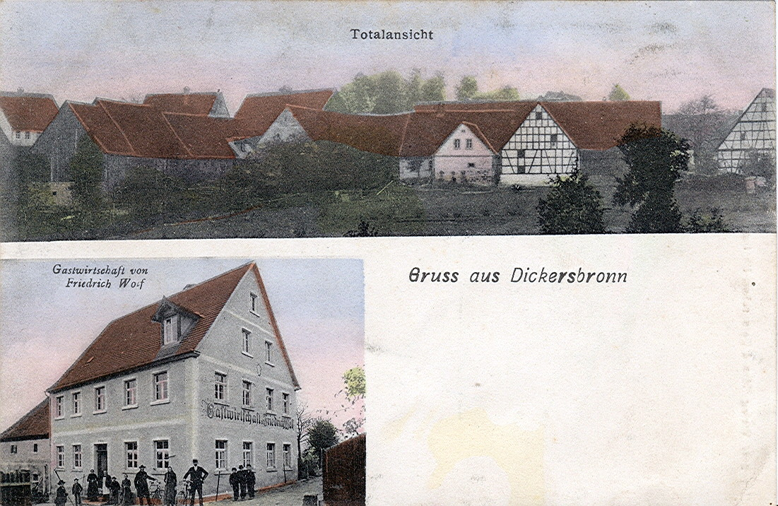 Postcard, undated ( ca.1914 ). Title: "Greetings from Dickersbronn - Total" and "Inn of Friedrich Wolf".